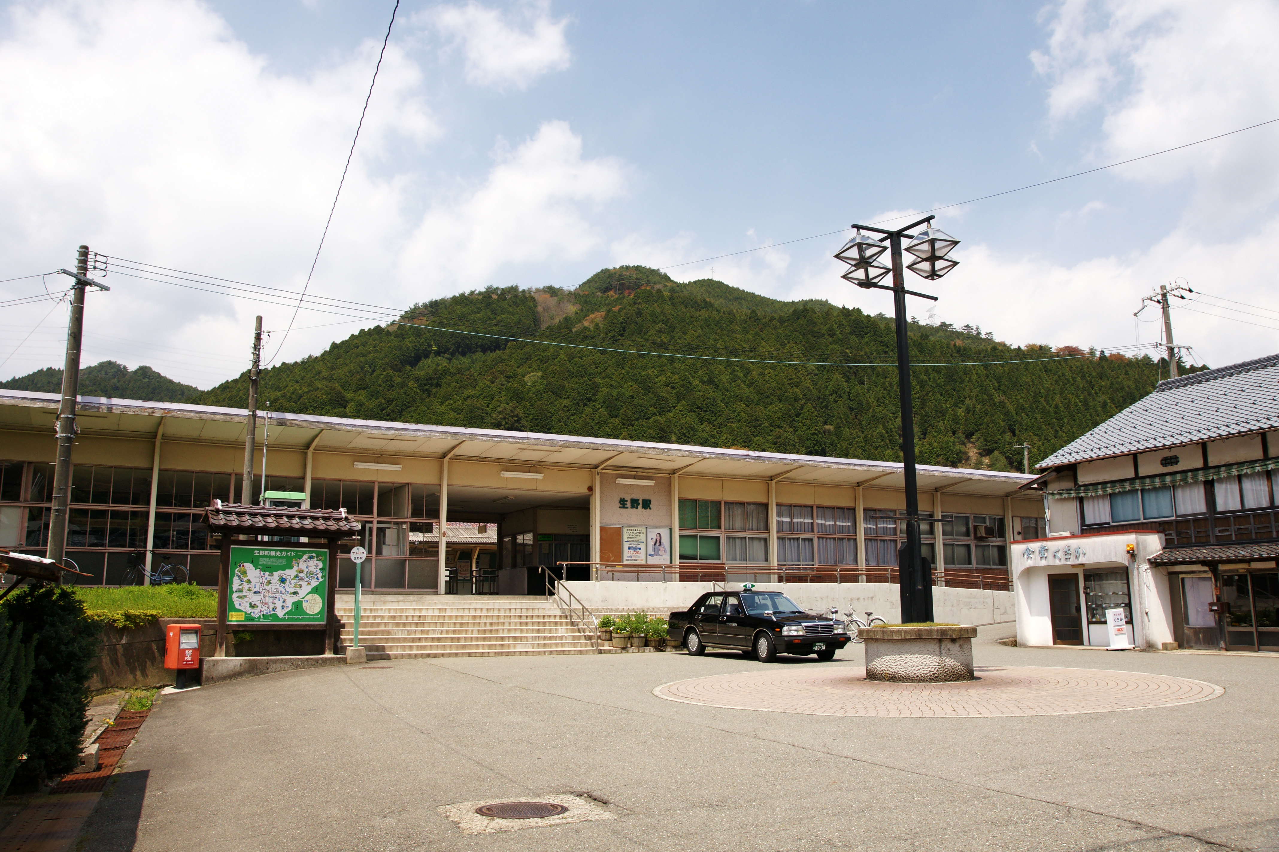 Ikuno Station in Kuchiganaya, Ikuno, Asago, Hyogo prefecture, Japan.